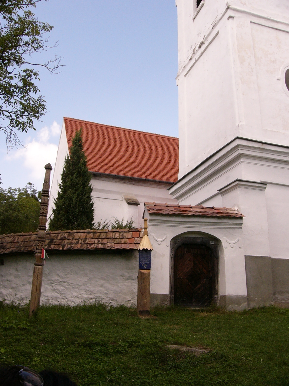 Enlaka, the Unitarian Church